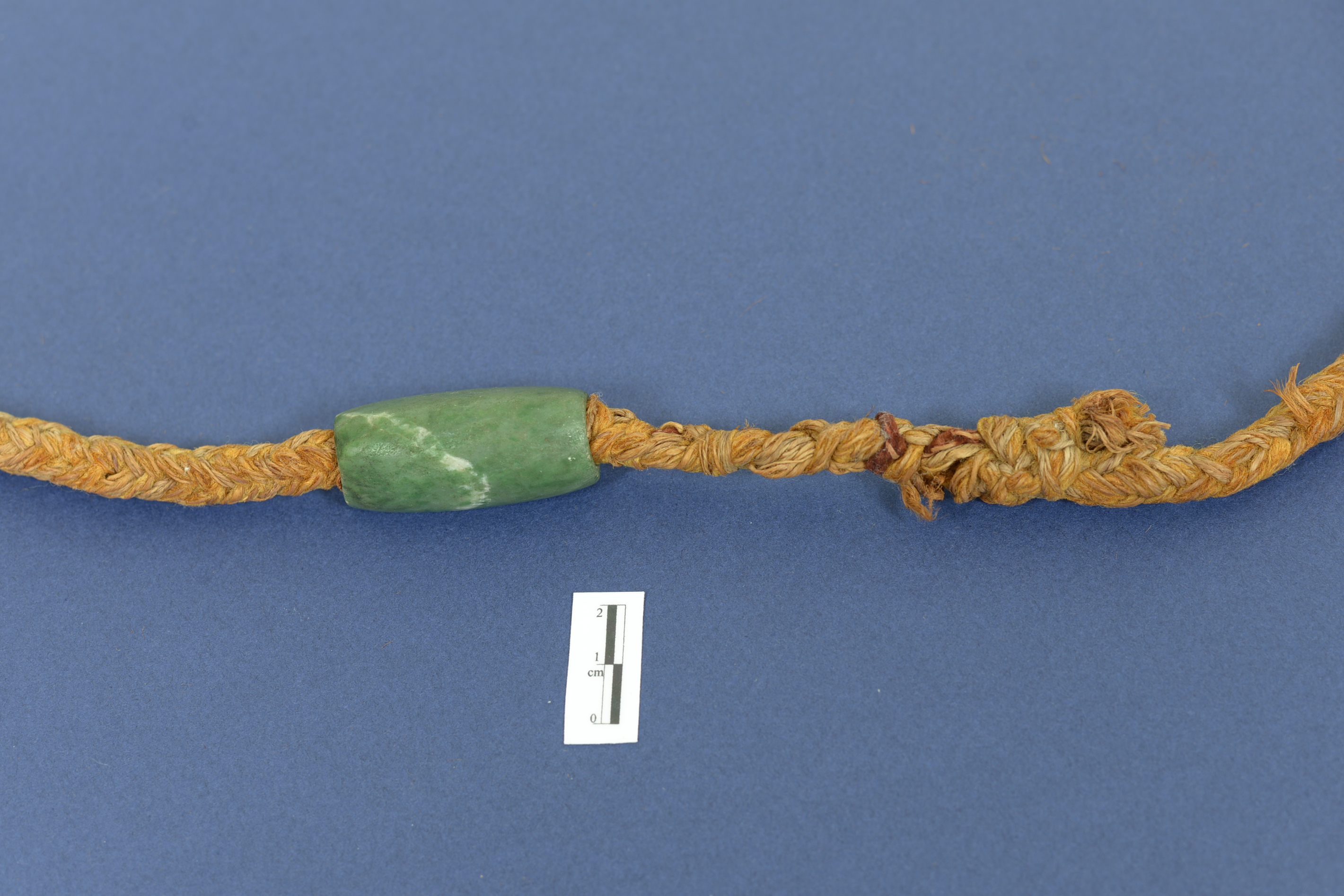 Kanak necklace in flying fox hair with a jadeite stone. Kanak jadeite necklace